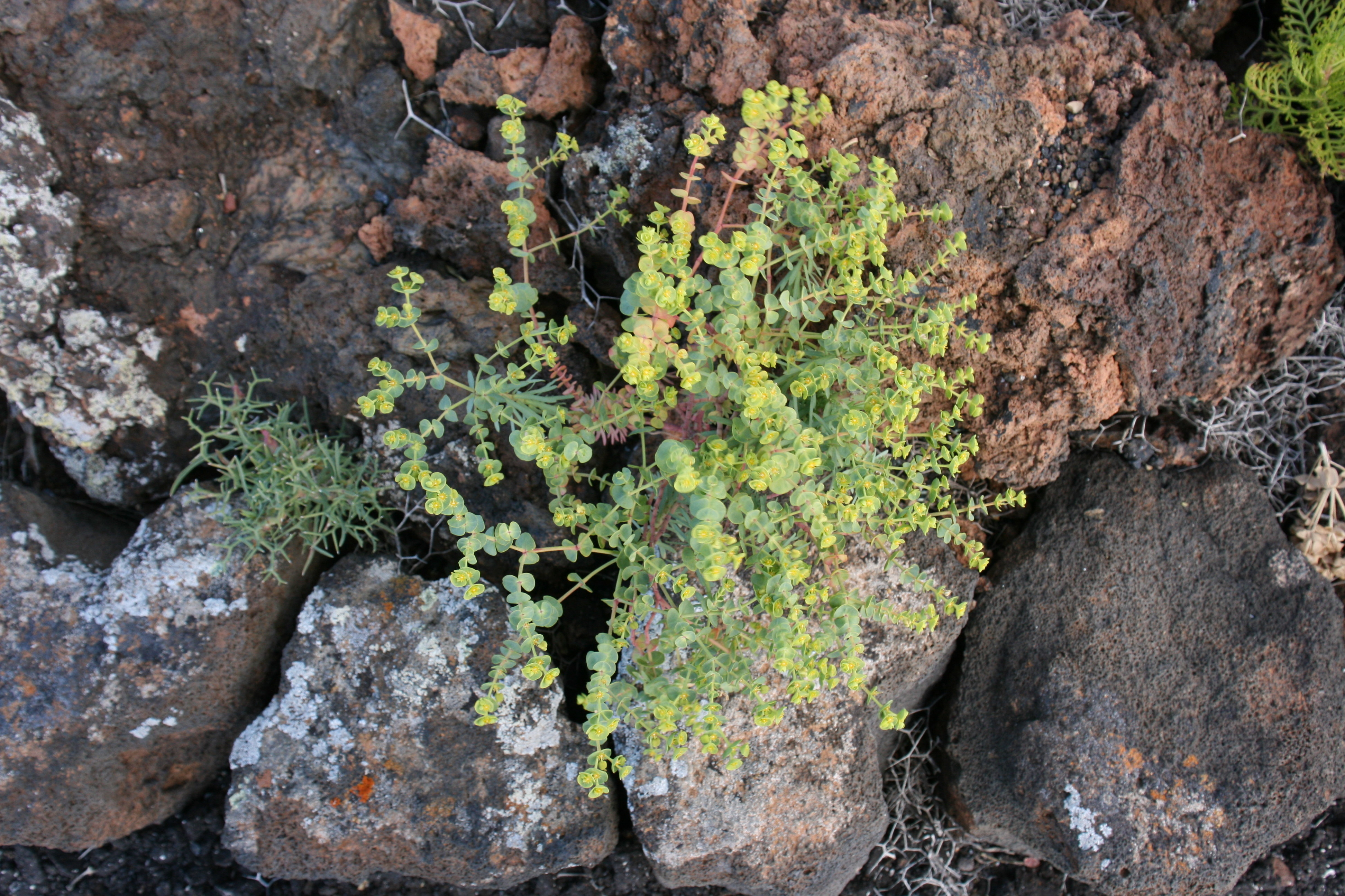 Euphorbia segetalis growing at Calle Jameos del Agua (LZ-1) in Arrieta, Haría, Lanzarote, Canary Islands